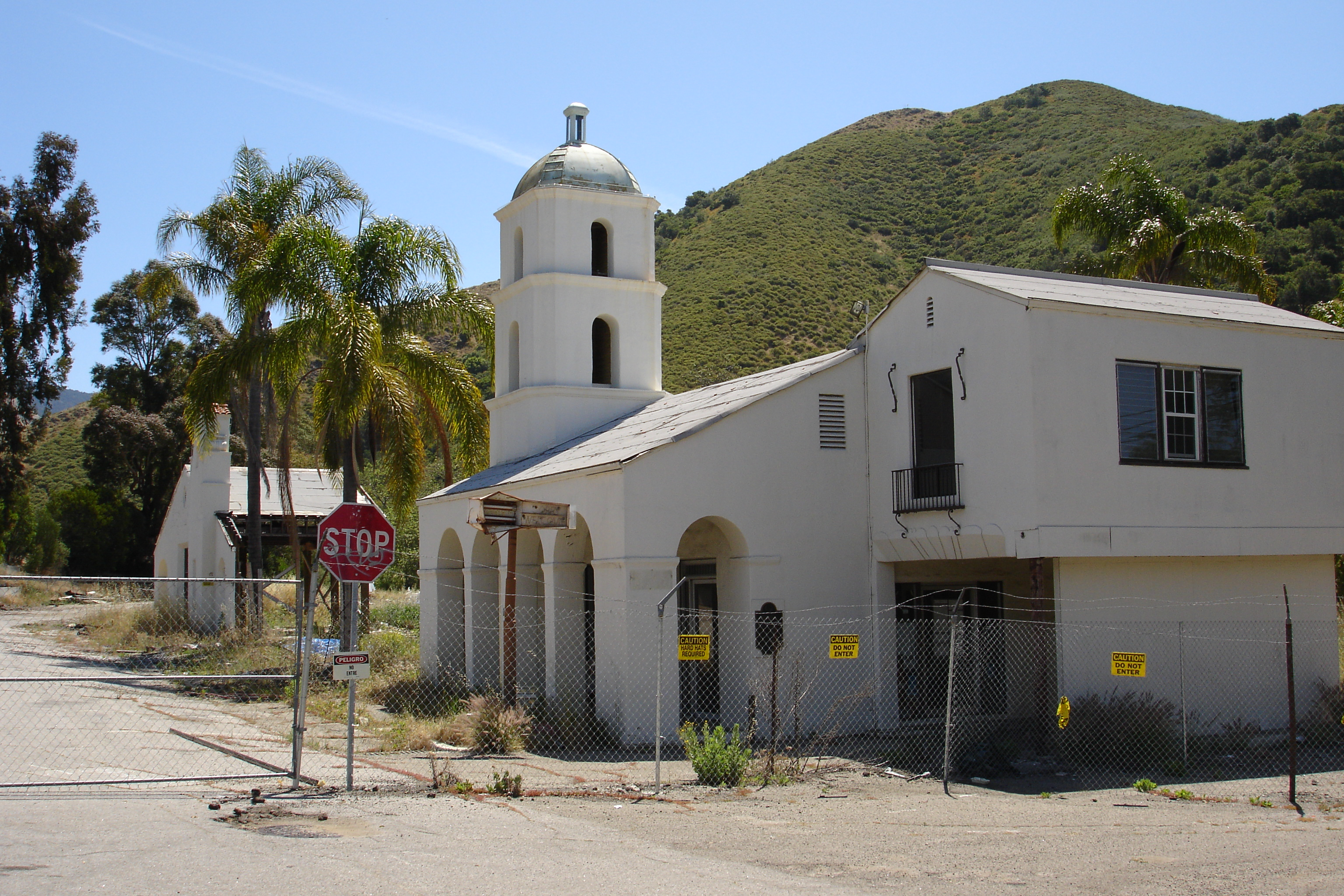 The Motel Inn of San Luis Obispo (originally known as the Milestone Mo-Tel) — the first motel in the world. Created and built in 1925, in the Spanish Colonial Revival style, now in ruins. Located on old Highway 101 in northern San Luis Obispo, Central California. From Flickr.